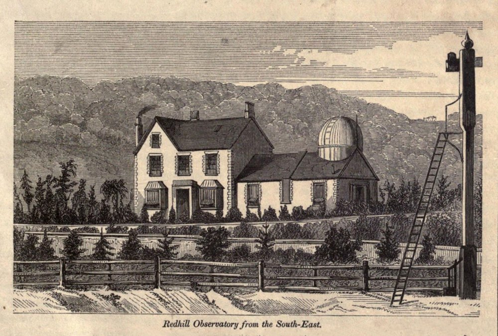 house and observatory of the British astronomer Richard Christopher Carrington (1826–1875), built 1852 on Furze Hill, Redhill, Surrey, UK. sketch from 1857 or earlier